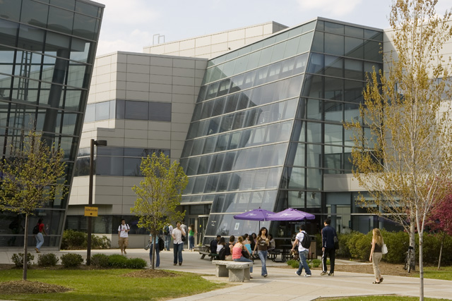 Binghamton university academic complex